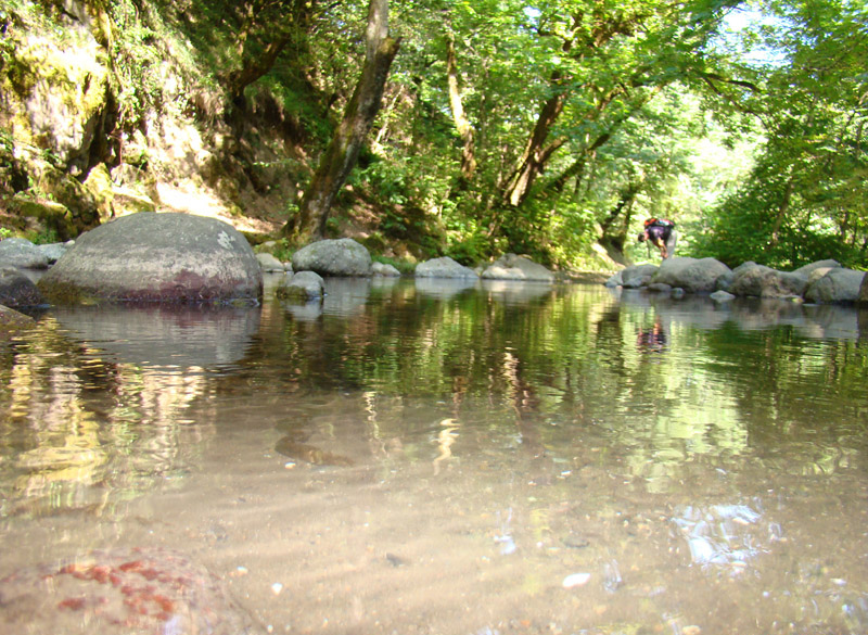 laton Waterfall